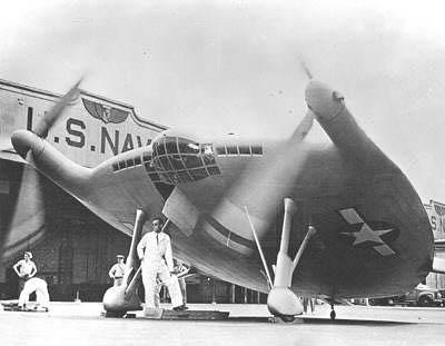 Photograph taken by a US Government employee during wartime. Image used to illustrate Vought "Flapjack" program. Image includes pilot Boone T. Guyton below the entrance trap door of the V-173. Image taken at Floyd Bennett Naval Air Station in New York.